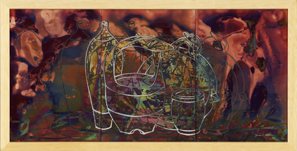 Multi-fired porcelain substrate tile piece from the ("Reflections Series"), 12 in. high x 24 in. wide, photo by Denny Mingus.